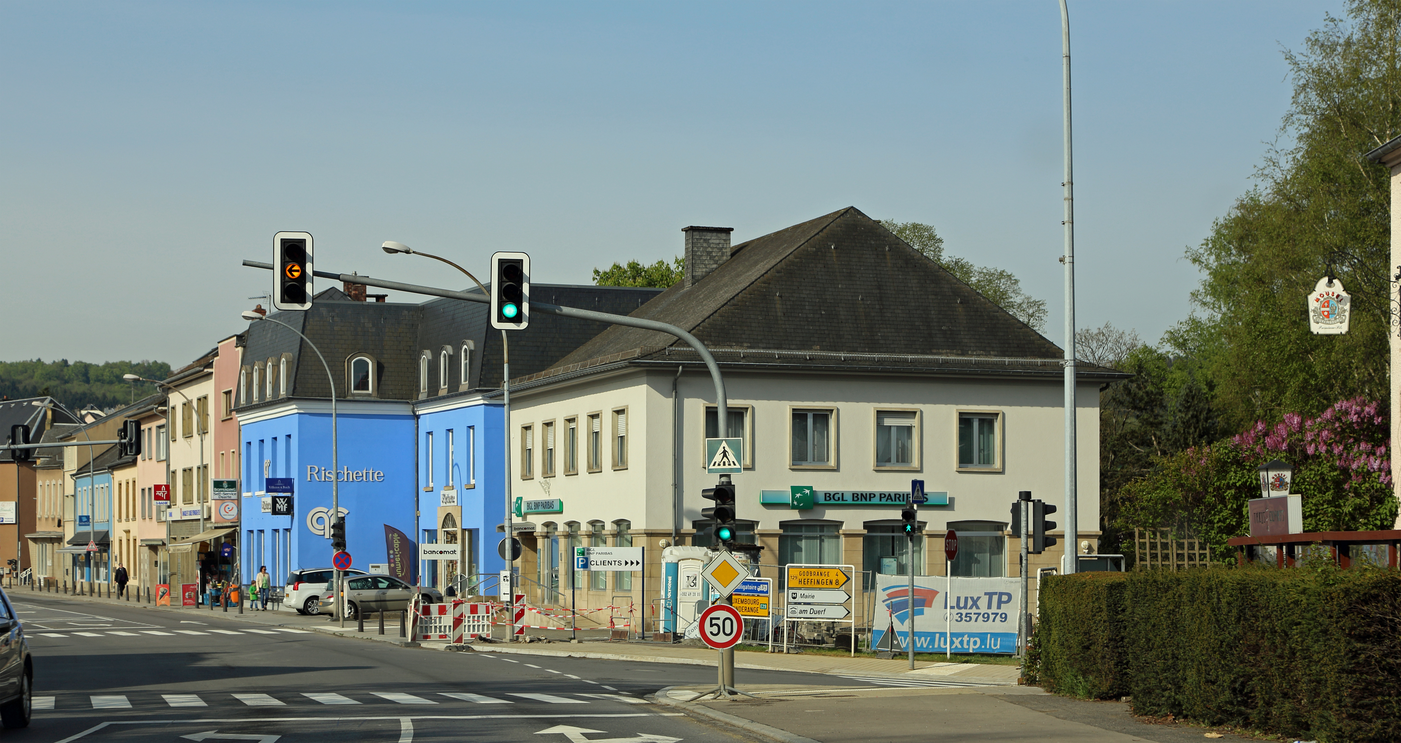 Junglinster (Grand Duchy of Luxembourg): the corner of the Route de Luxembourg and the Rue du Village